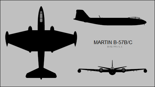 3-view silhouettes of the Martin B-57B/C Canberra